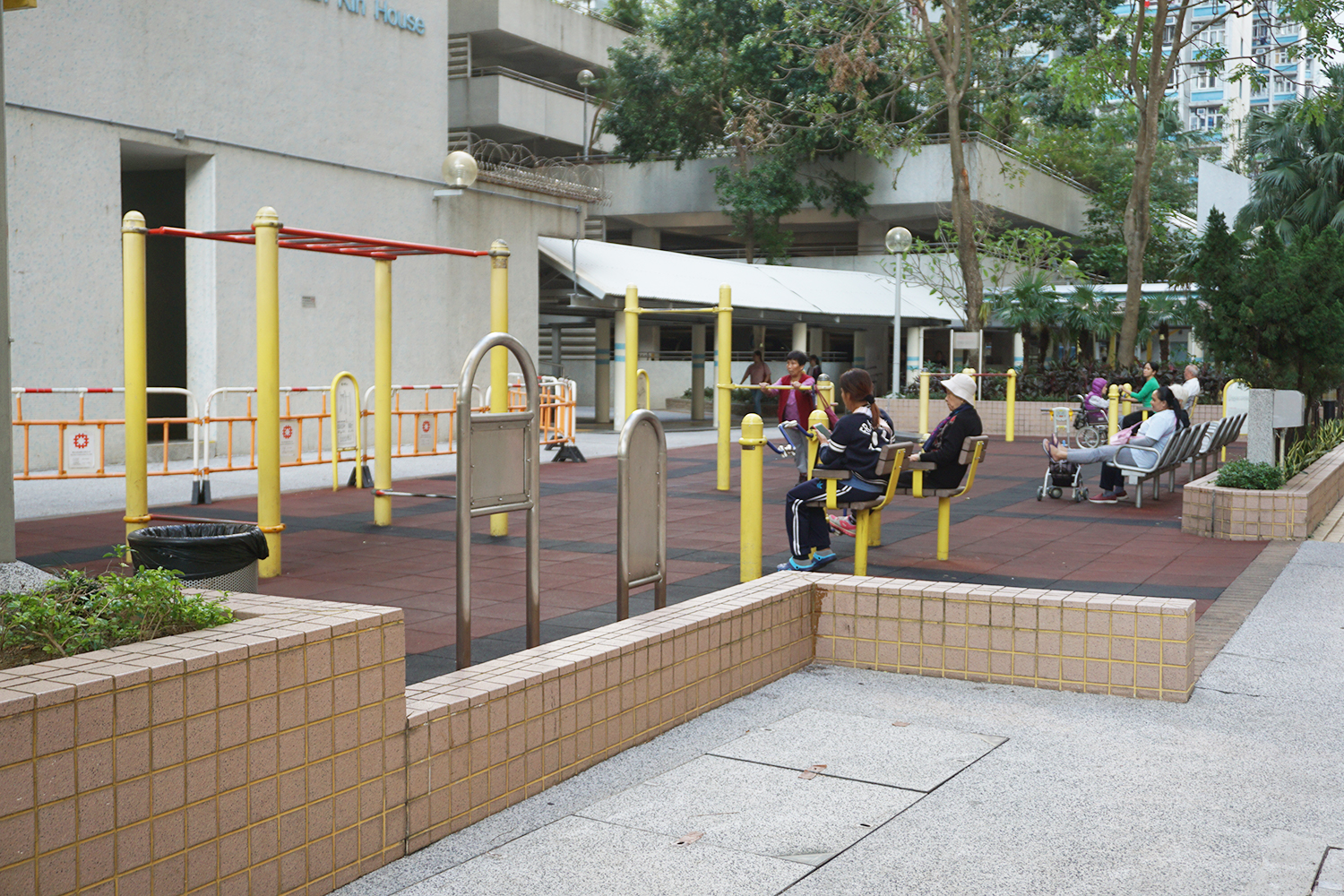 Tsz Man Estate in Tsz Wan Shan, Hong Kong.